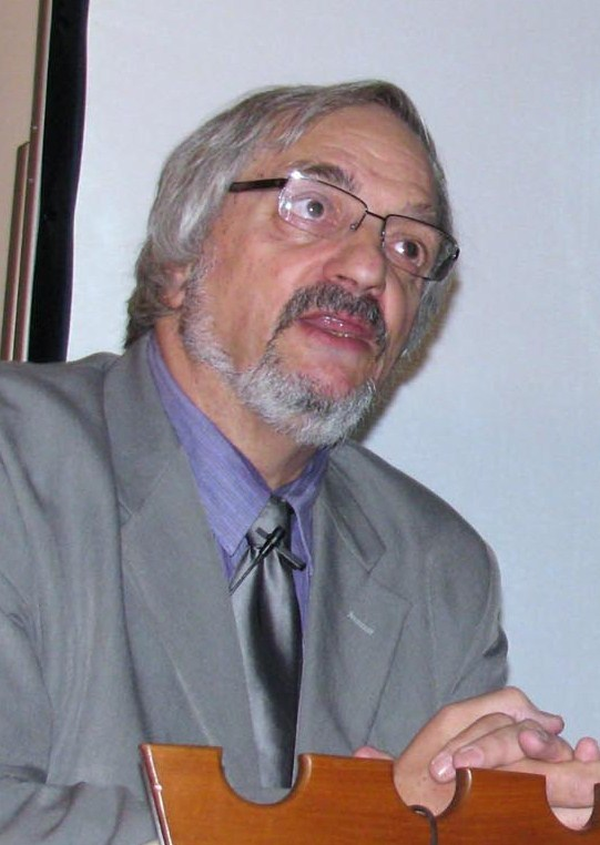 Gad Kaynar